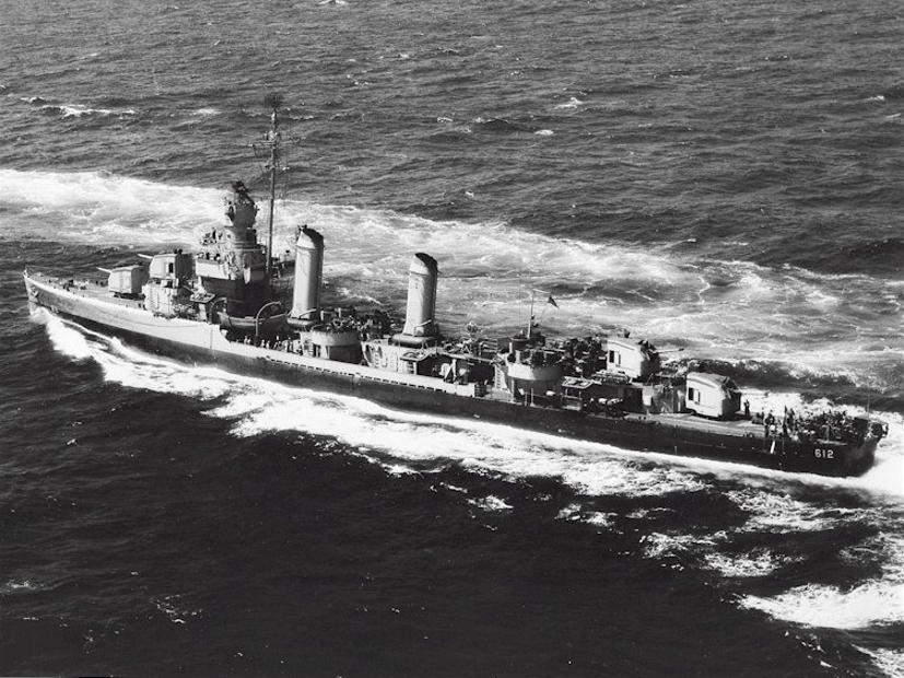 The U.S. Navy destroyer USS Kendrick (DD-612) on 27 June 1945. The photo was taken at an altitude of 75 m (250 ft). Kendrick was one of the Benson-class destroyers modified in 1945 to counter the kamikaze threat. Note that all torpedo tubes have been replaced by 40 mm Bofors guns.